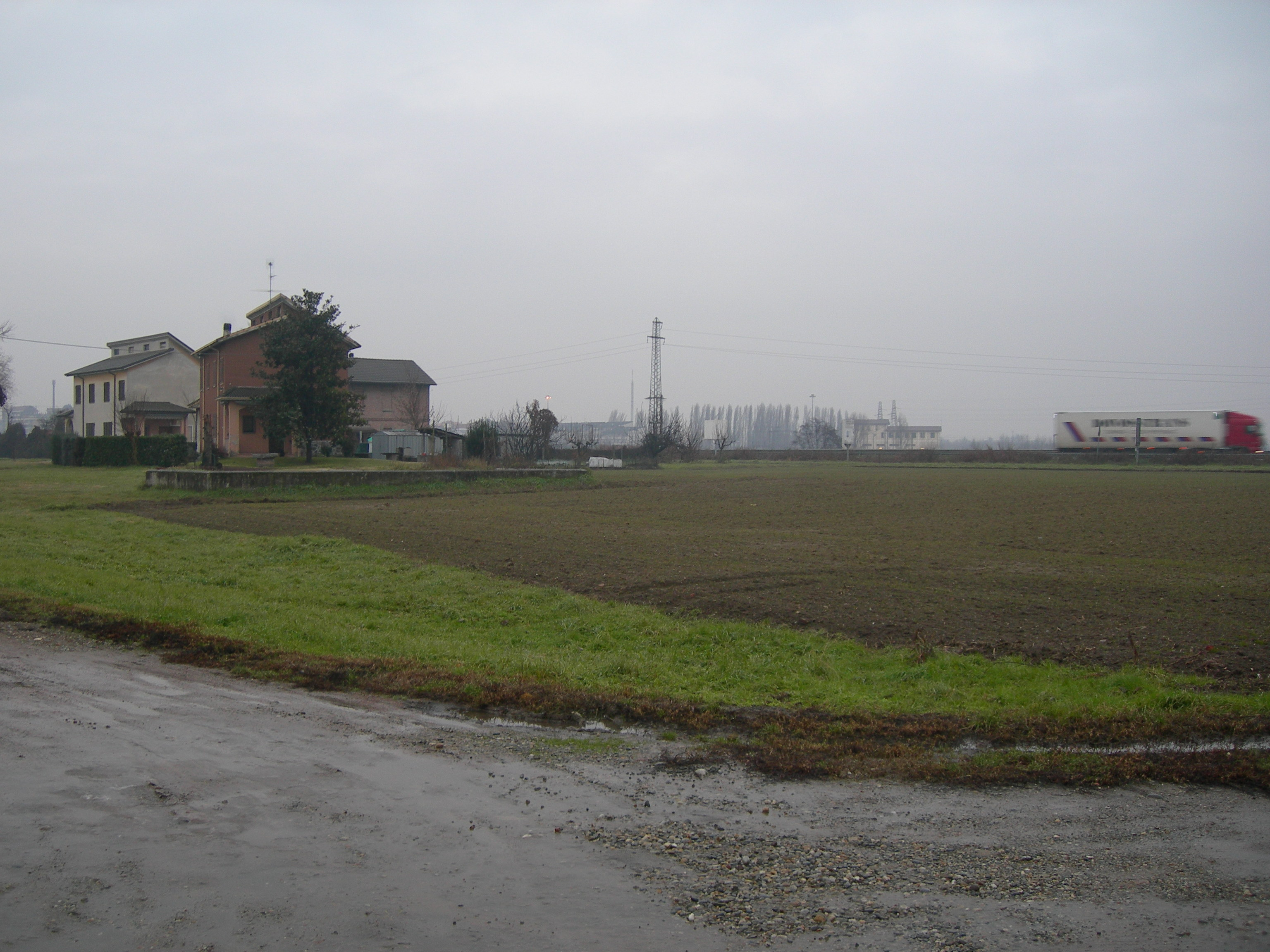 Countryside of Riozzo